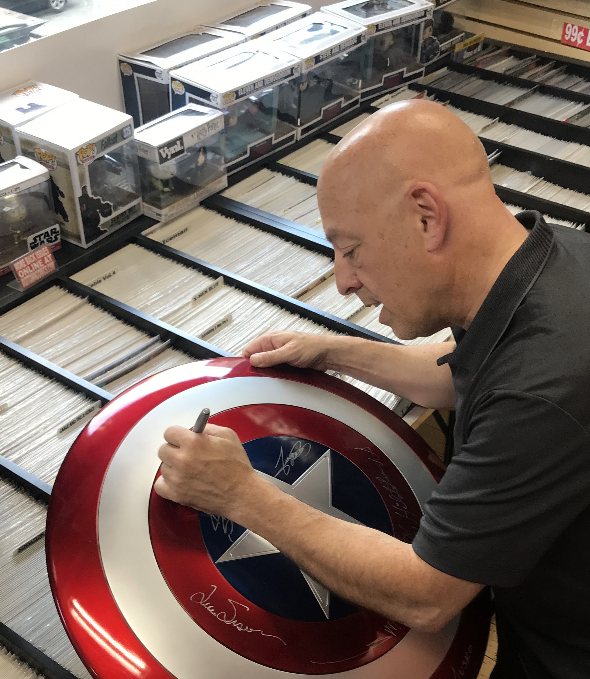 Comics writer Brian Michael Bendis at a July 24, 2019 open book signing at Midtown Comics Downtown in Lower Manhattan. In the photo, Bendis is signing a fan's replica of Captain America's shield. This photo was created by Luigi Novi. It is not in the public domain, and use of this file outside of the licensing terms is a copyright violation.